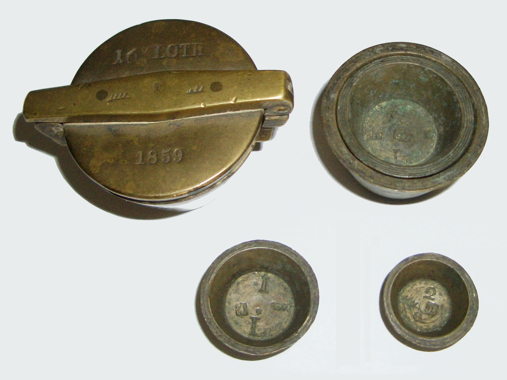 Loth from Württemberg from 1859. All: 16 Loth, Single weights: 4, 2, 1 Loth and 2 Quentchen (=1/2 Loth)